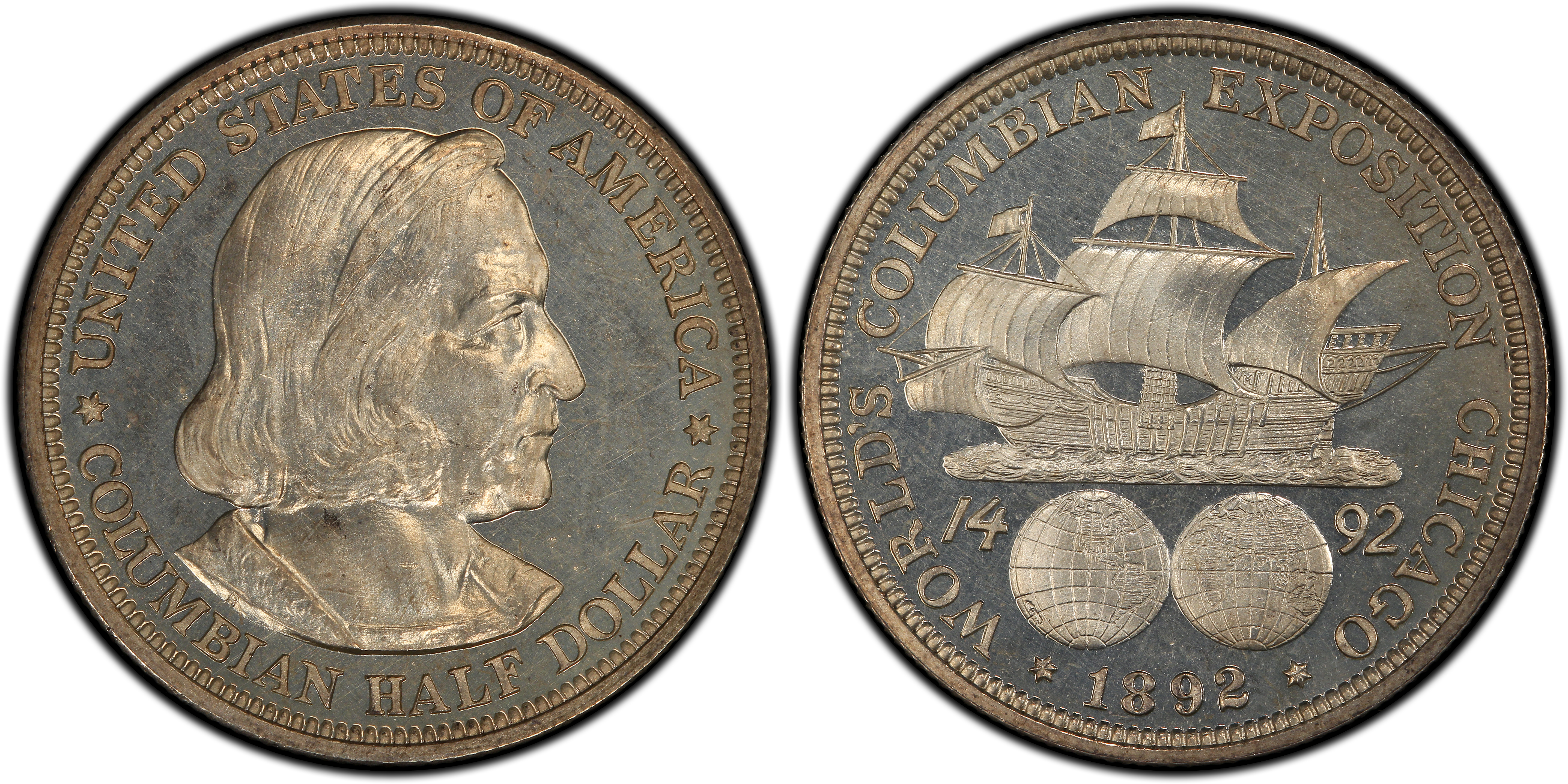 1892 Columbian proof half dollar